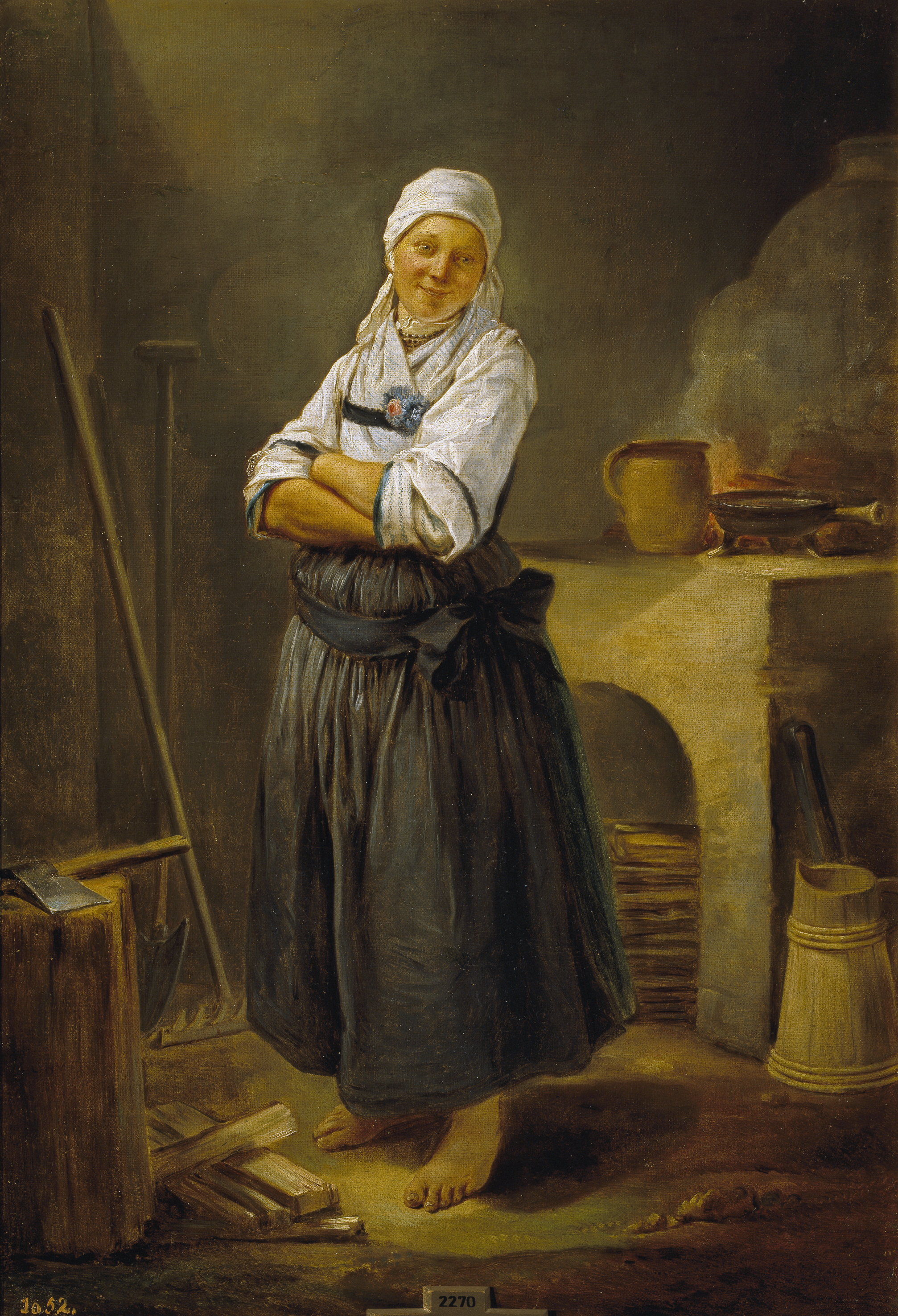 A Saxon Villager in her Kitchen